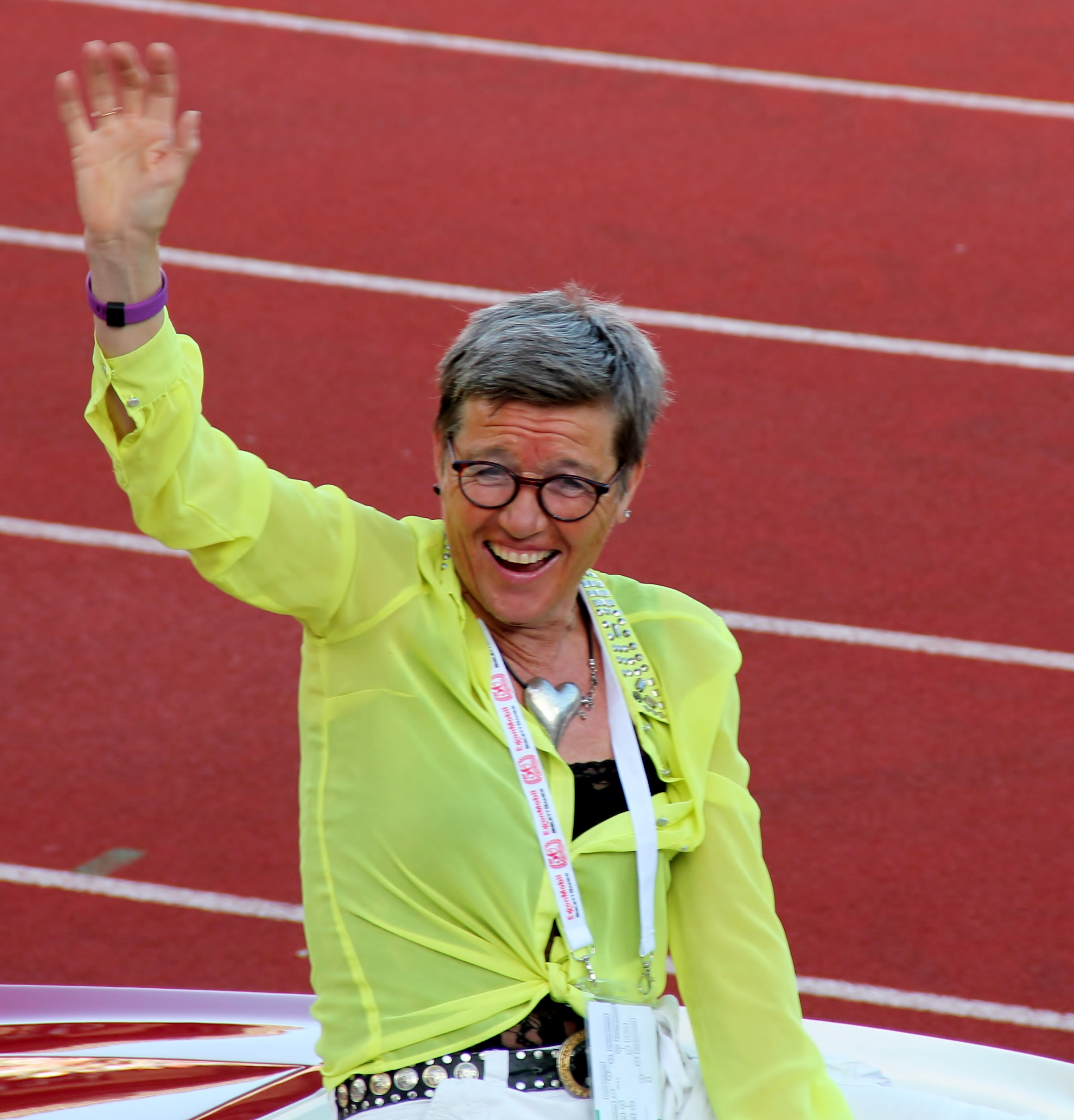 Ingrid Kristiansen at the 2015 Bislett Games